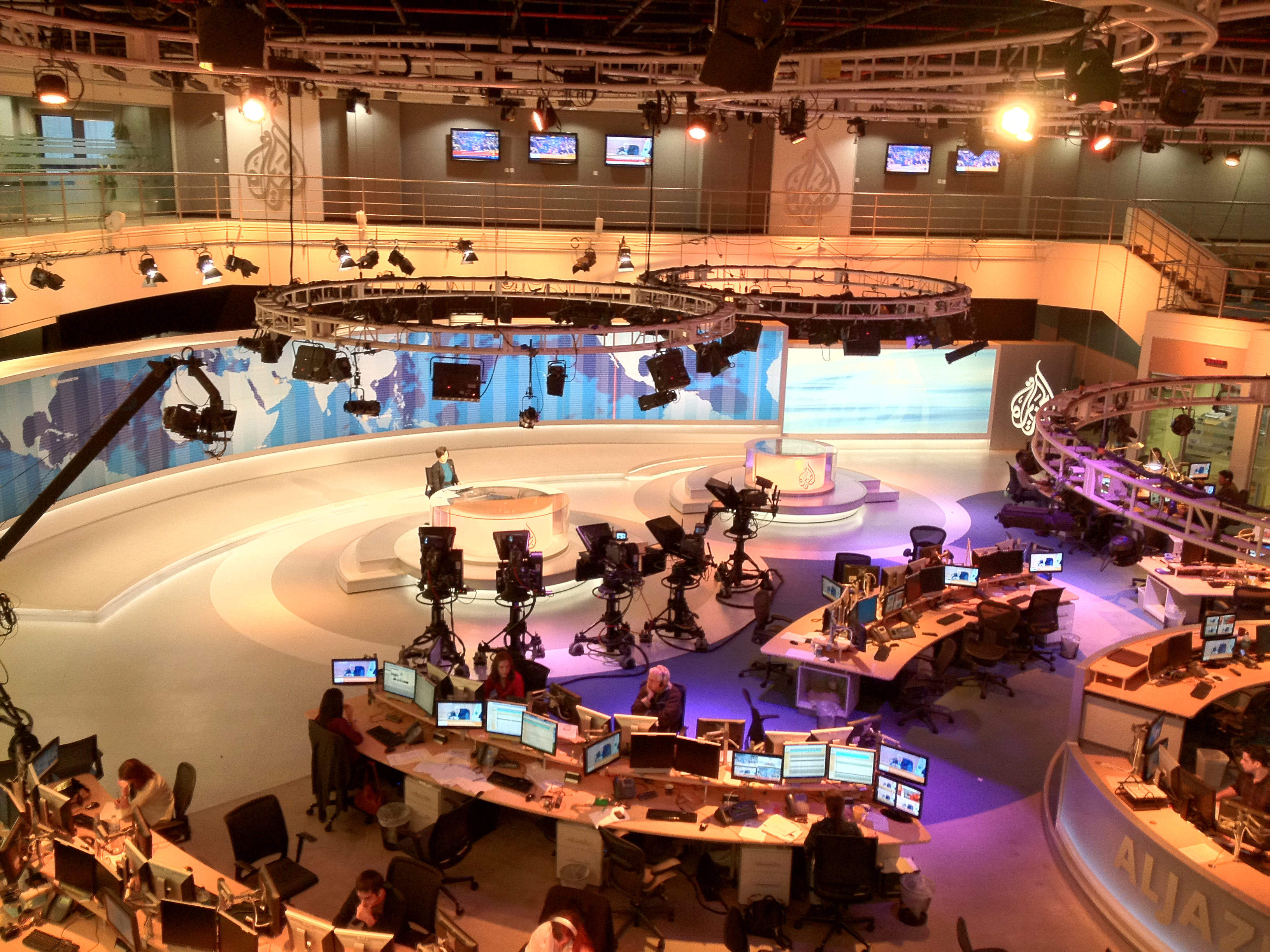 Photo from balcony overlooking main television studio towards presenter's desk in the Doha headquarters.